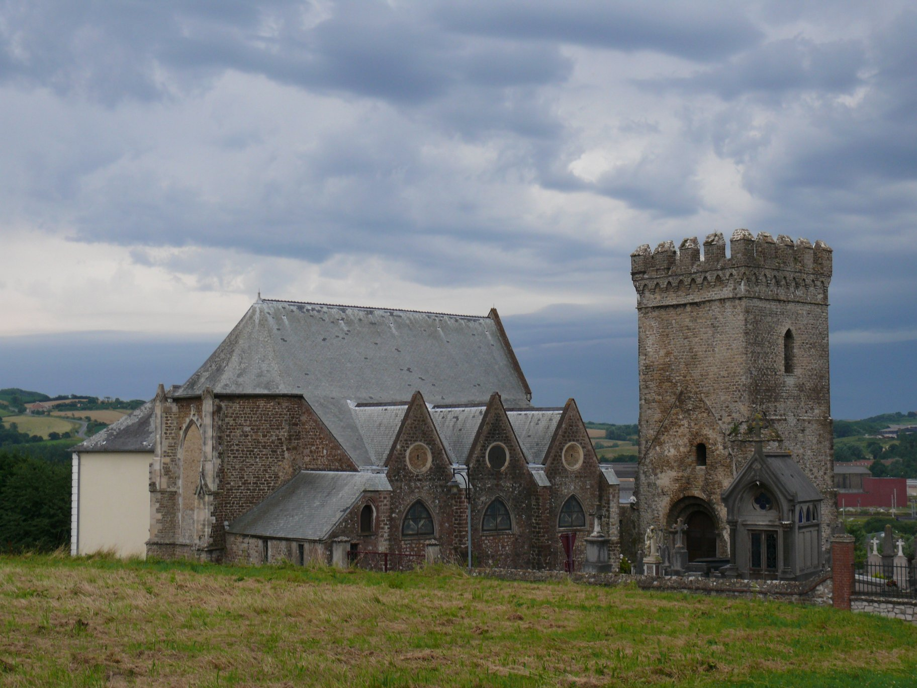 Saint-Leonard's church of Saint-Léonard (Pas-de-Calais, France).